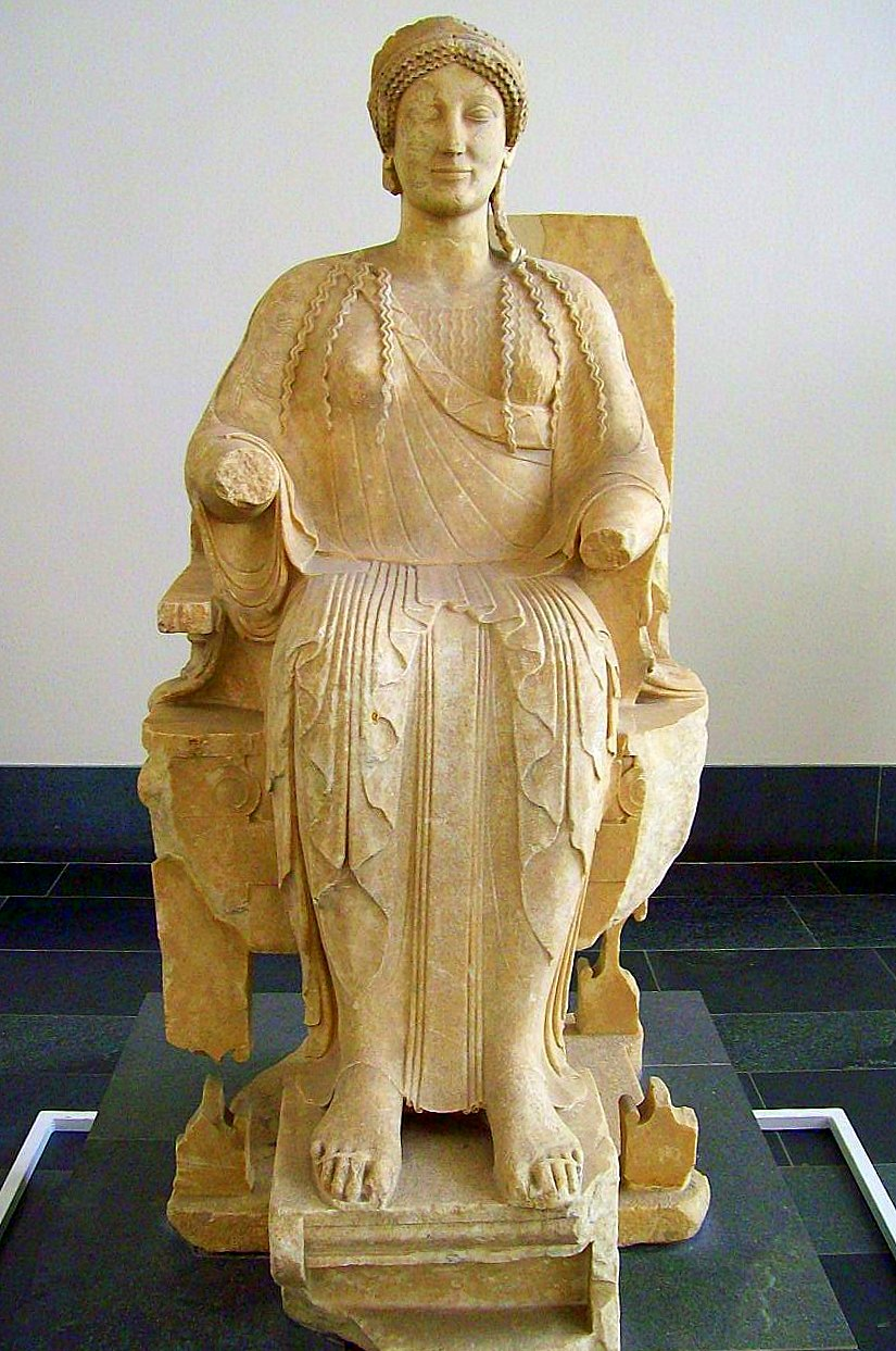 Throning goddess, marble statue supposed to be Persephone, queen of the underworld, 480-460 BC, found in Taranto, Italy. (Berlin inventory number Sk 1761), Pergamon Museum, Berlin